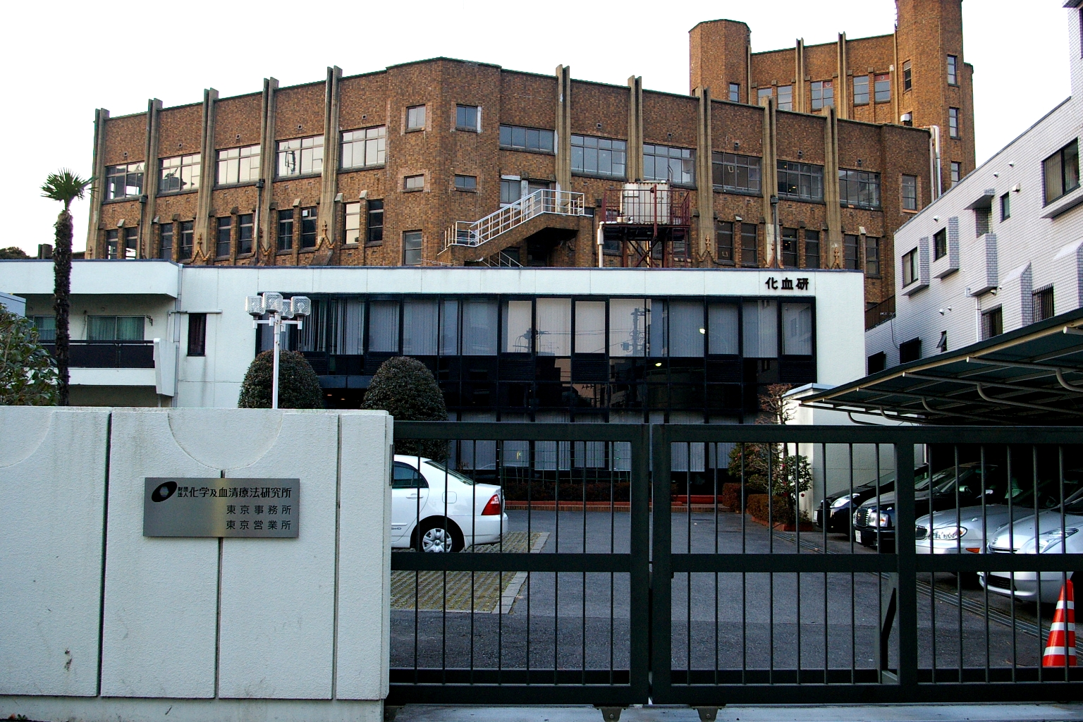 The Chemo-Sero-Therapeutic Research Institute